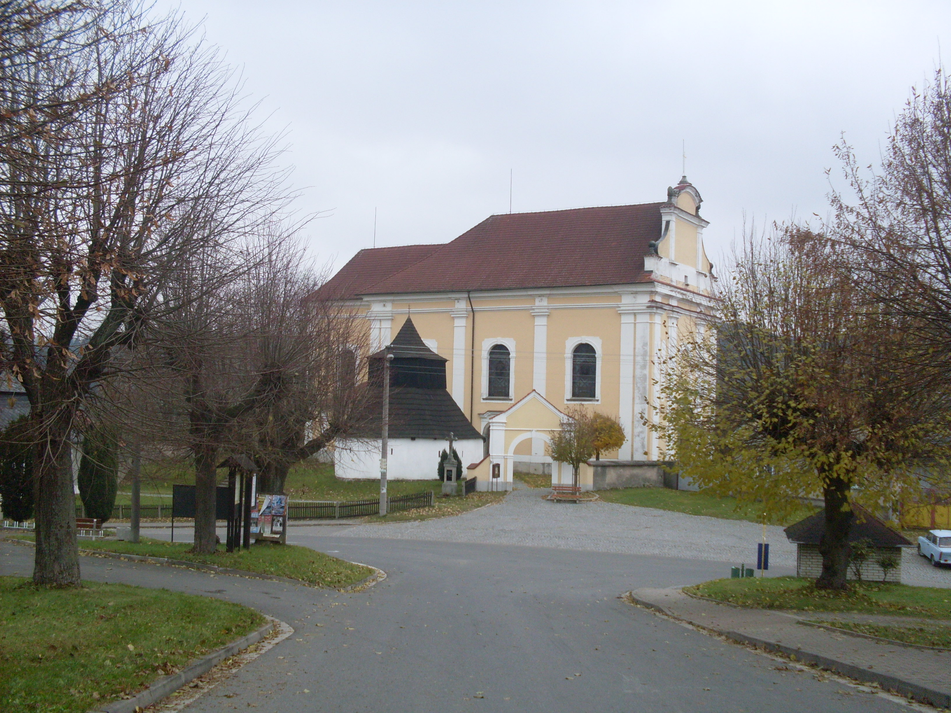 St. Vitus's church in Bojanov, Czech Republic, Autumn 2011